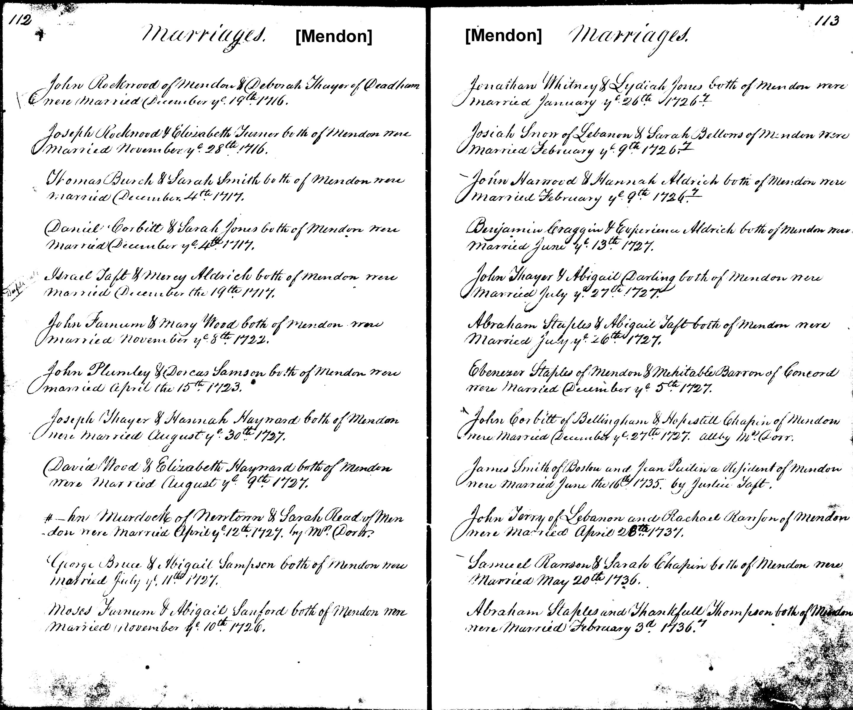 Marriage ledger for Suffolk County, Massachusetts in the early 1700s